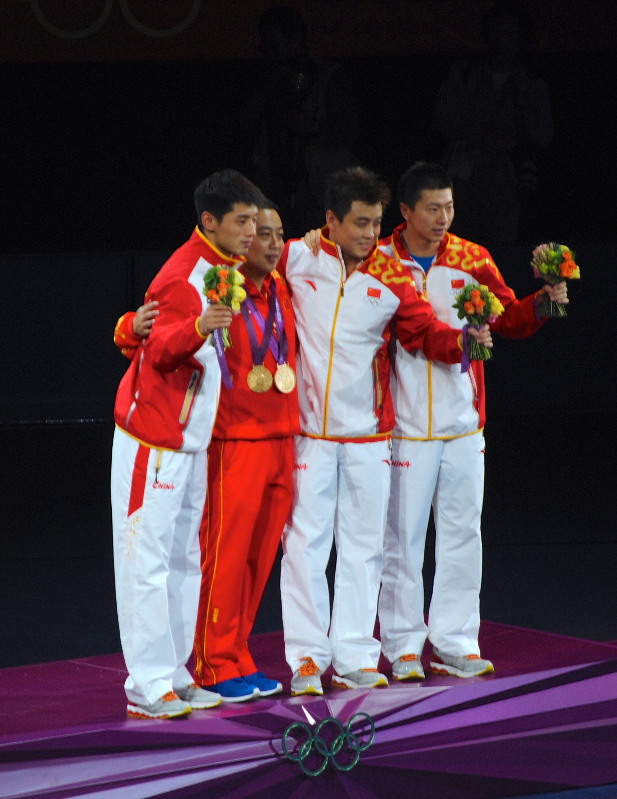 Gold Medalists - China